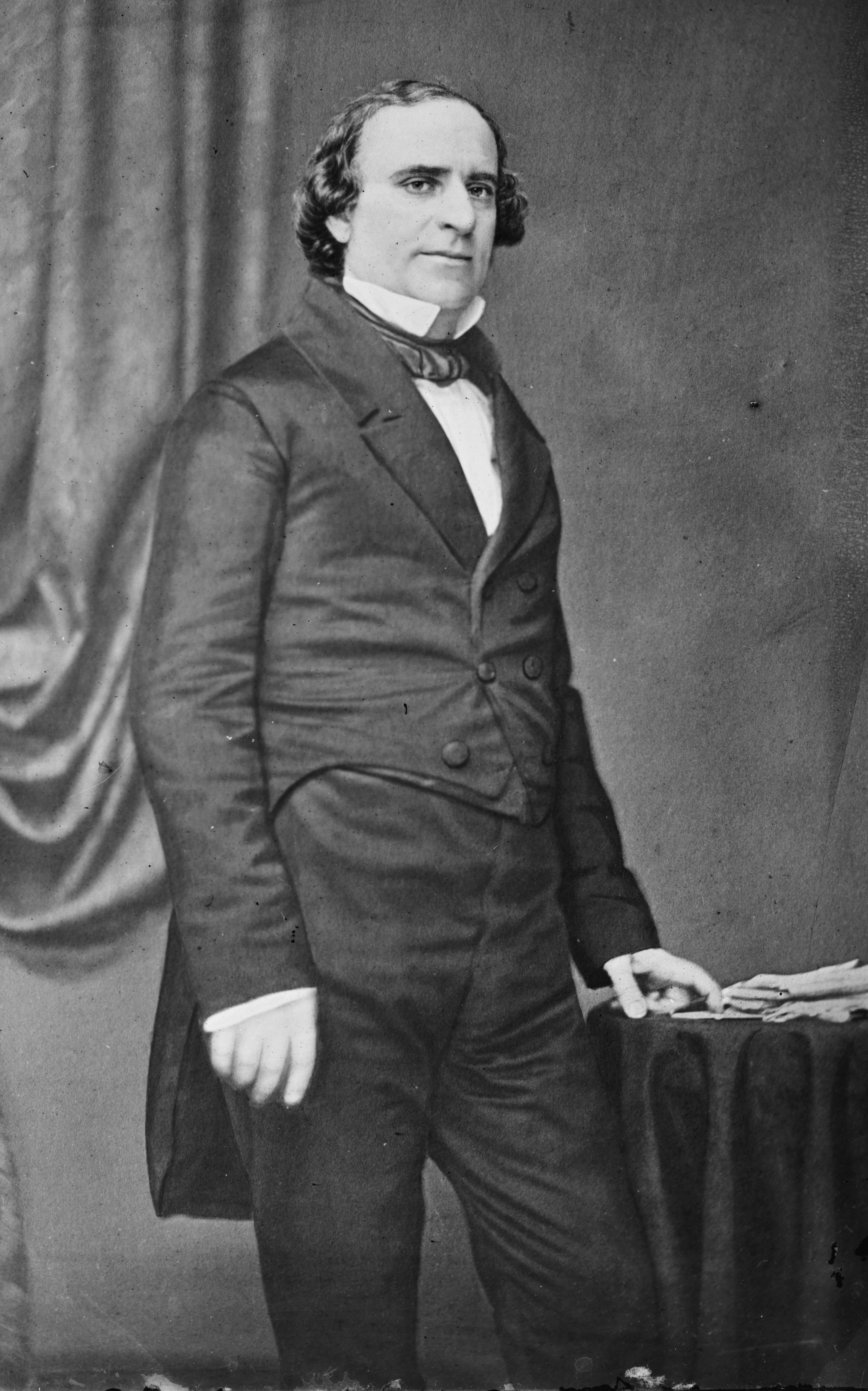 David Levy Yulee. Library of Congress description: "Hon. David Levy Yulee of Florida"